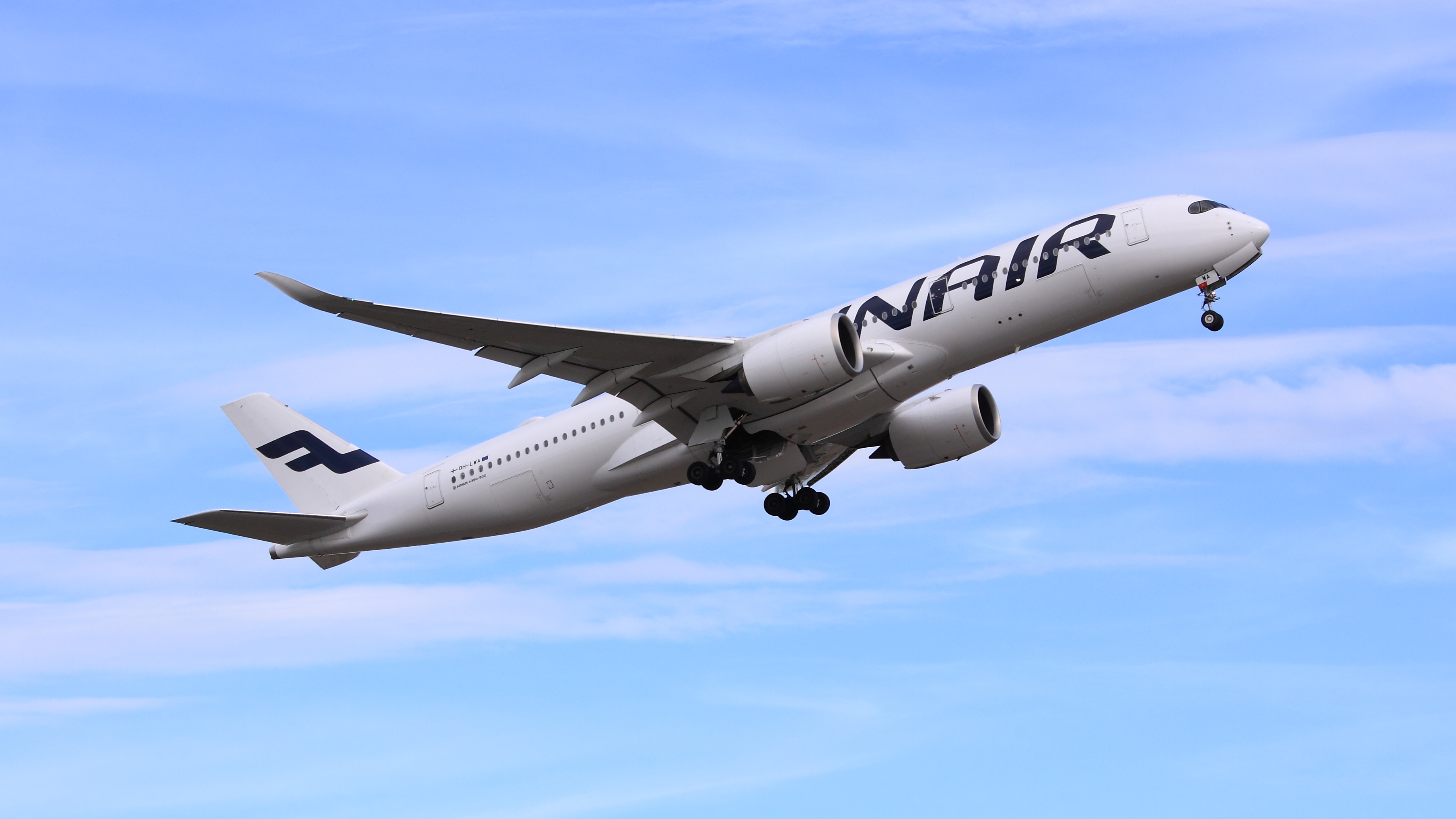 Finnair Airbus A350 OH-LWA Helsinki-Vantaa (HEL/EFHK) flight AY57 (HEL-PVG) departure rwy 22R June 7th 2016.